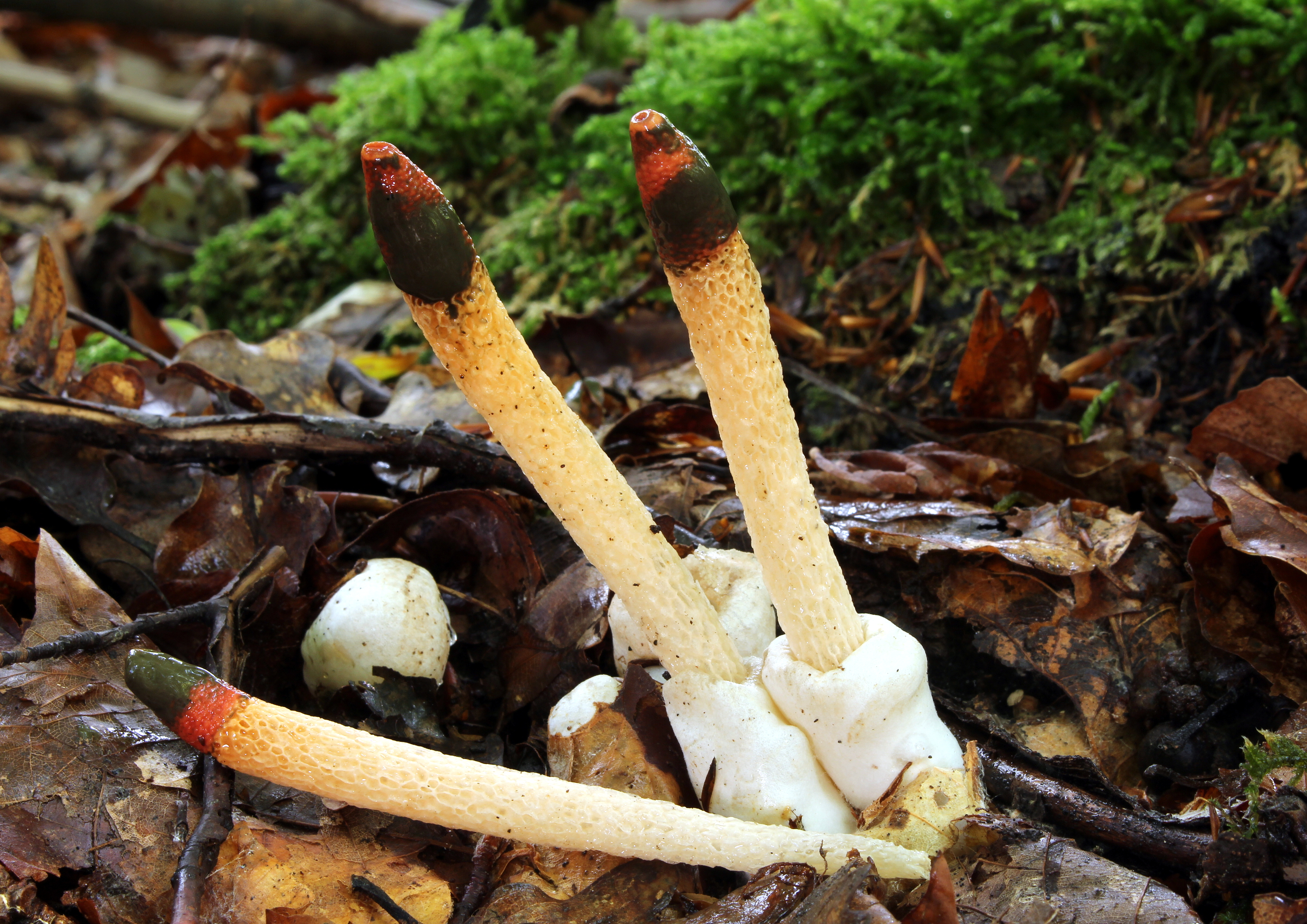 Dog Stinkhorn, Mutinus caninus, Family: Phallaceae, Location: Germany, Erbach, Ringingen